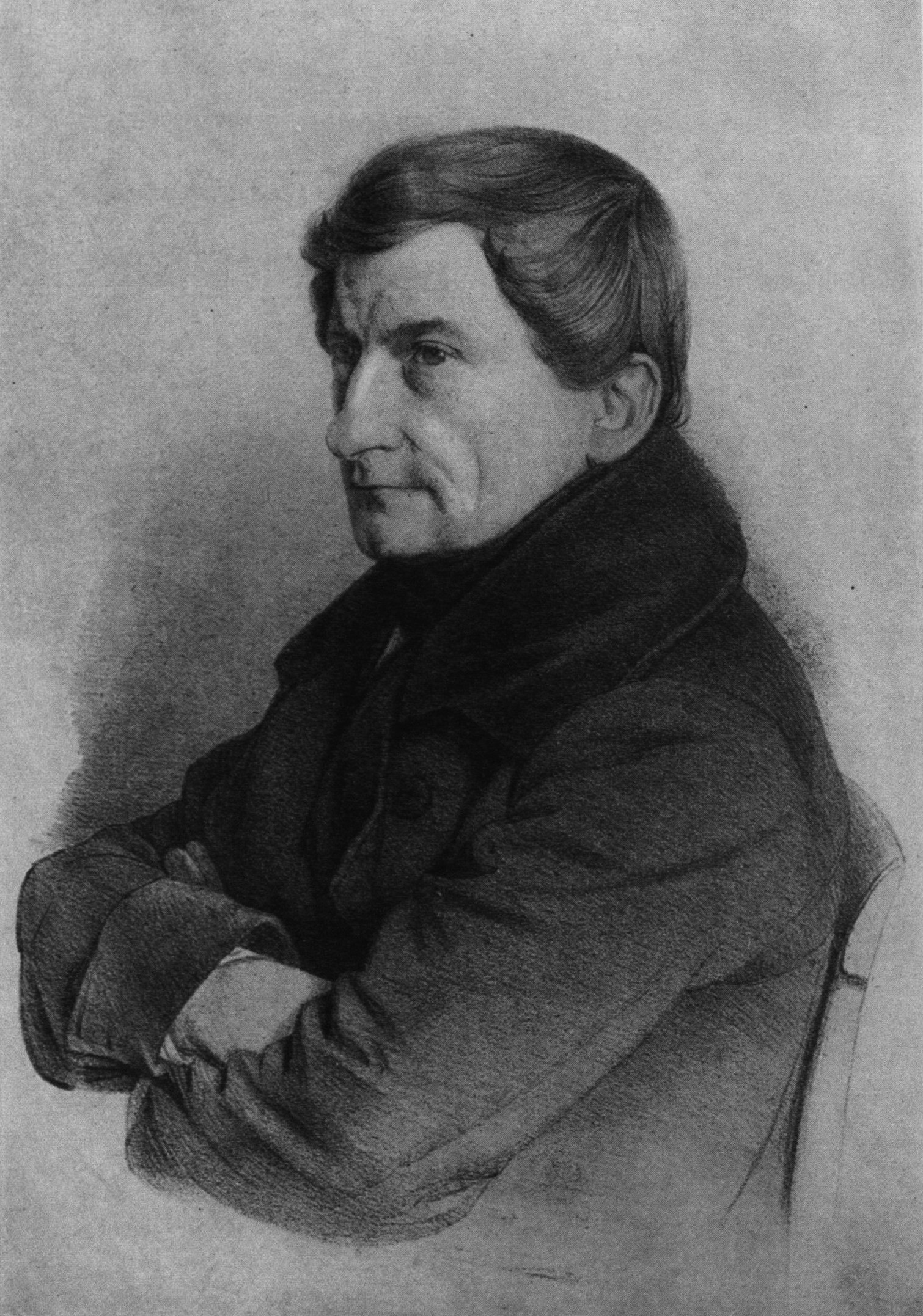 Johann Ludwig Choulant (1791 - 1861), German medical bibliographer, historian, active practitioner and hygienist